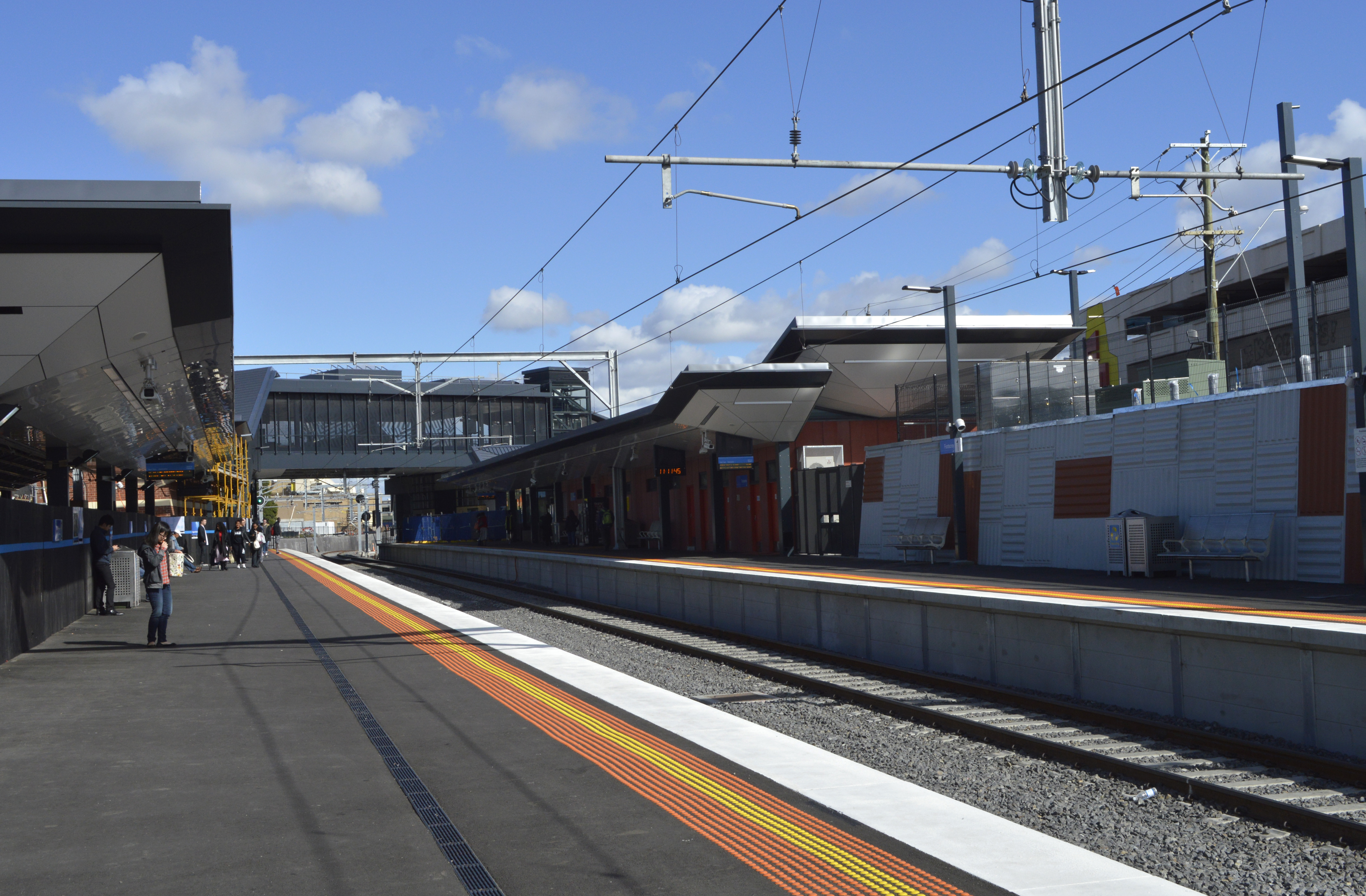 Looking west